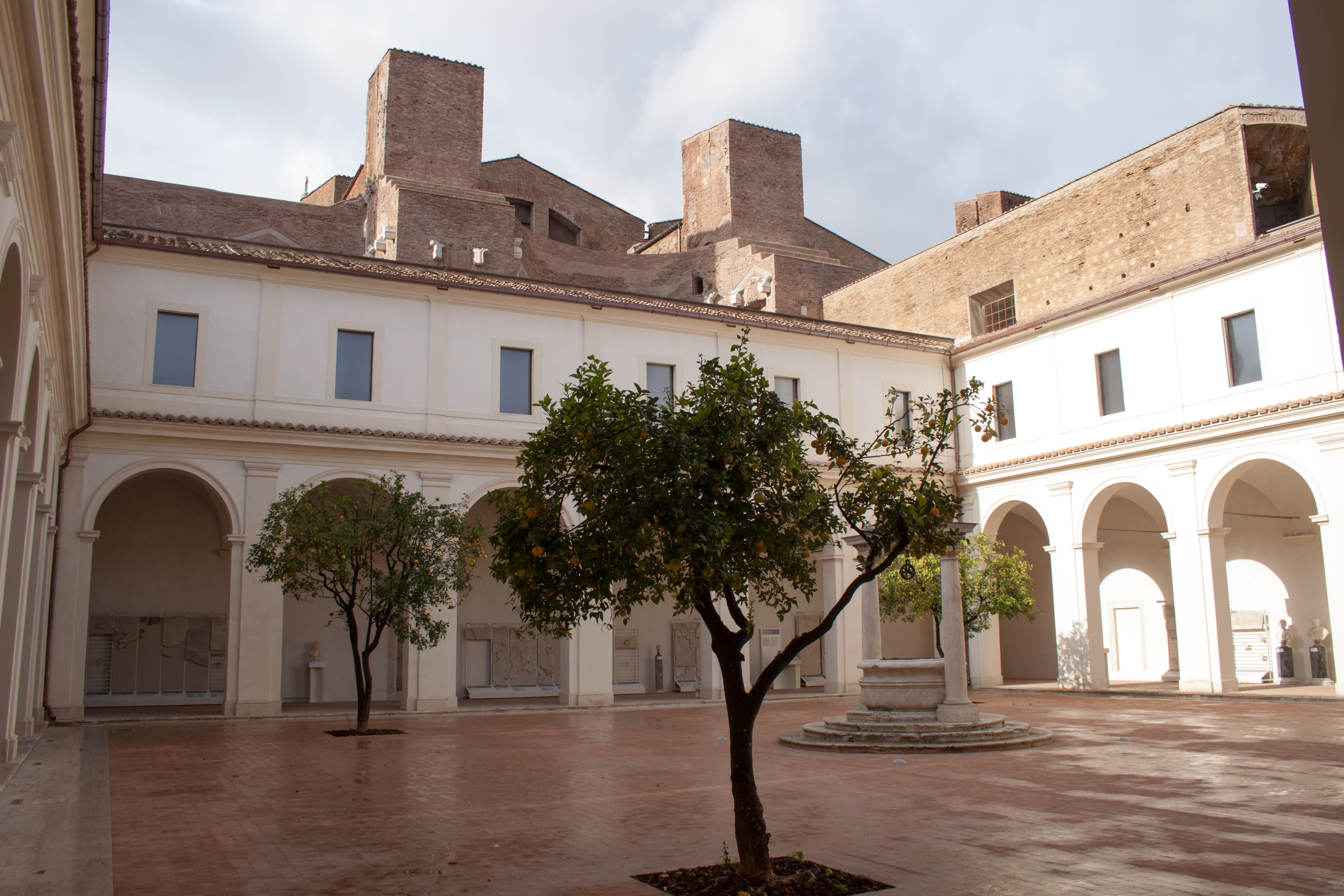 Courtyard of the little cloister